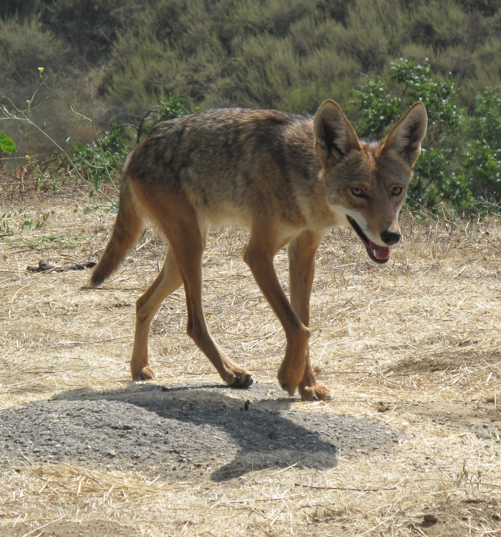 Coyote, Beverley Crest, Beverley Hills, CA.